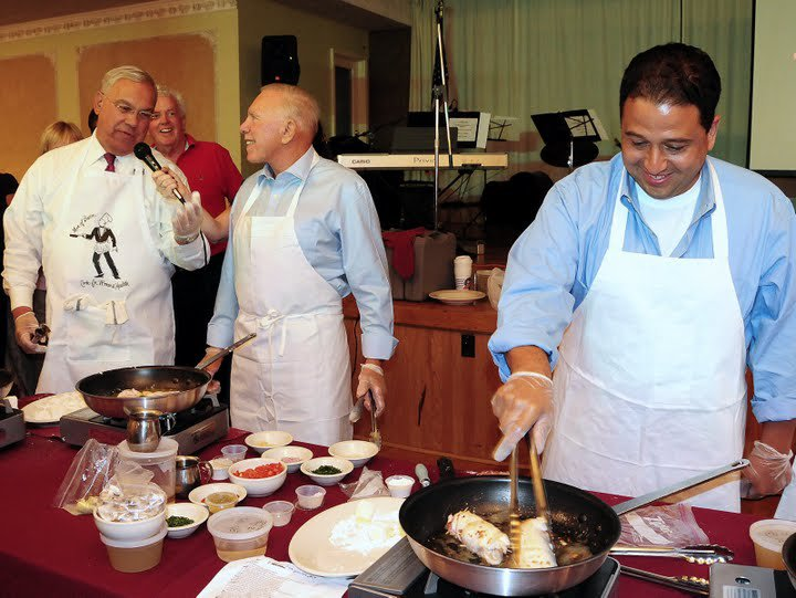 Boston City Councilor Rob Consalvo at the Taste of Roslindale event.